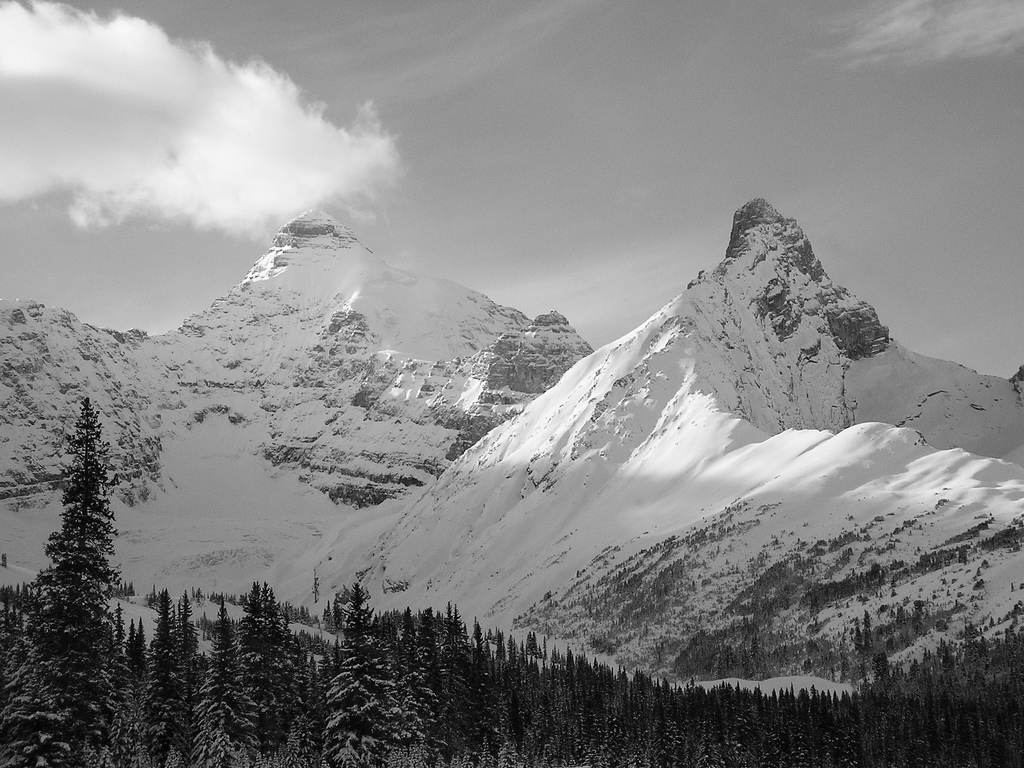 Mount Athabasca. Evening light falls on the pristine snow.